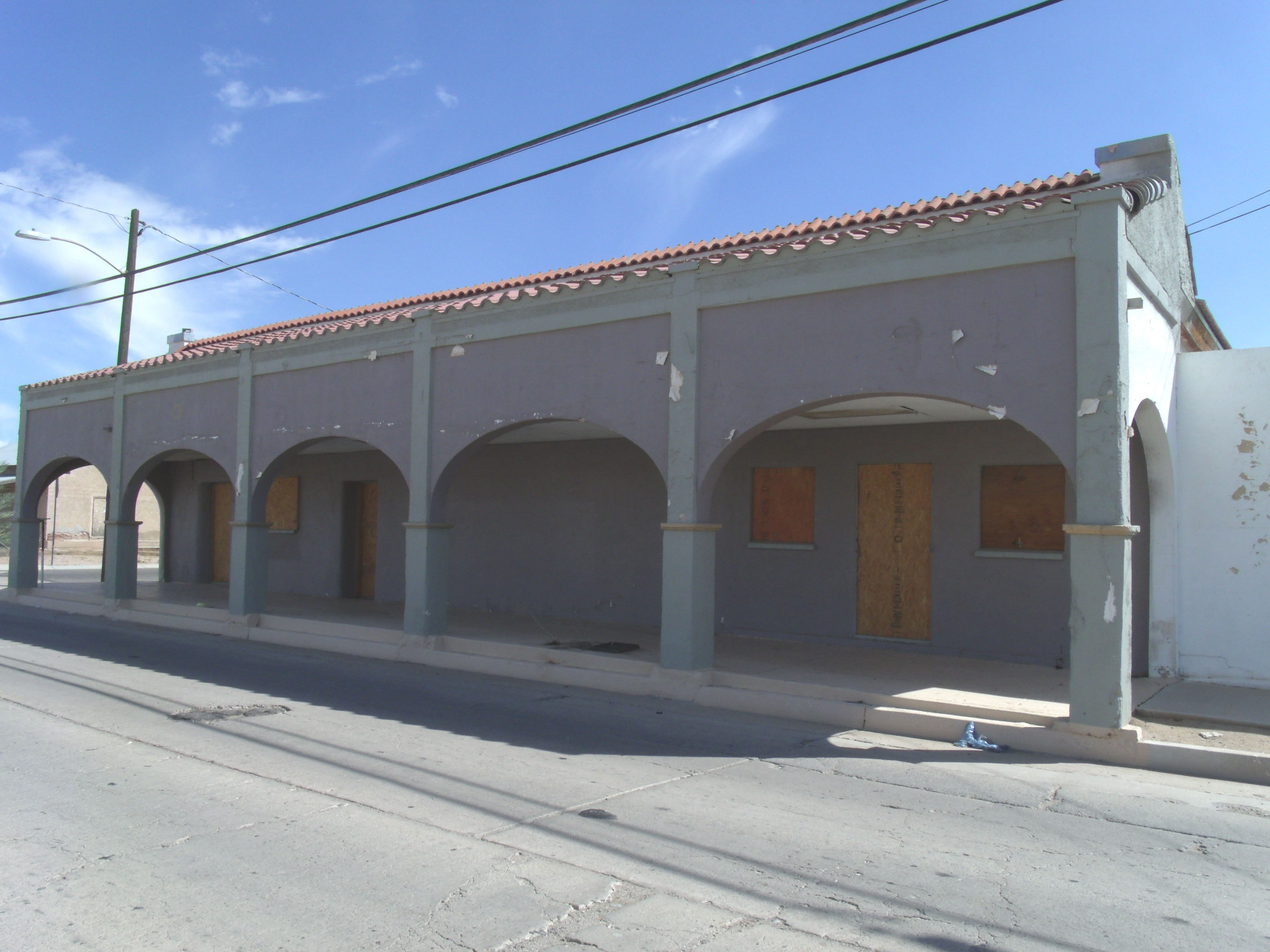 The Southern Pacific Railroad Depot was built in 1925 and is located at 201 W. Main St. in Casa Grande, Az. It was listed in the National Register of Historic Places in 2002, reference #02000734. Behind the depot is the Casa Grande Hotel which was built in 1898 and which was listed in the National Register of Historic Places in 1985, reference #85000881.